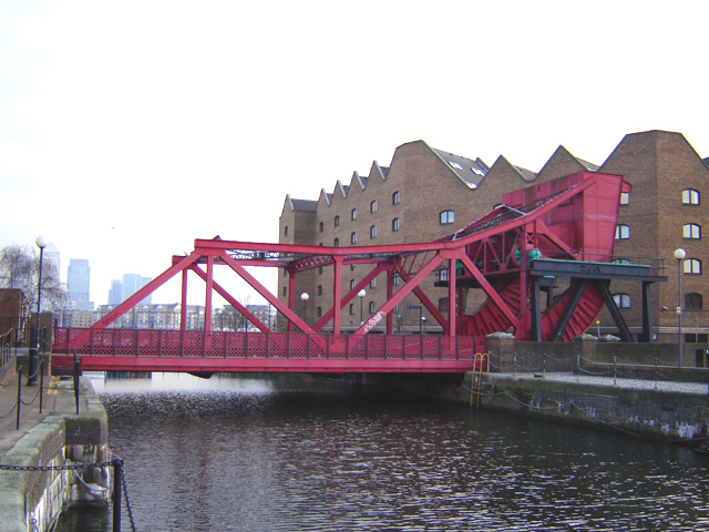 Shadwell Basin Bridge, Tower Hamlets, London. 6 January 2006. Photographer: Fin Fahey